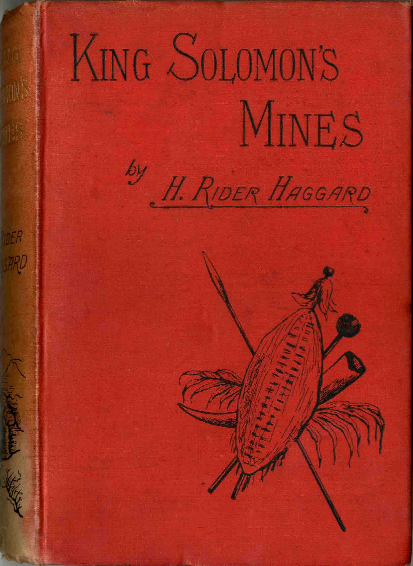 Front cover of 1887 edition of King Solomon's Mines